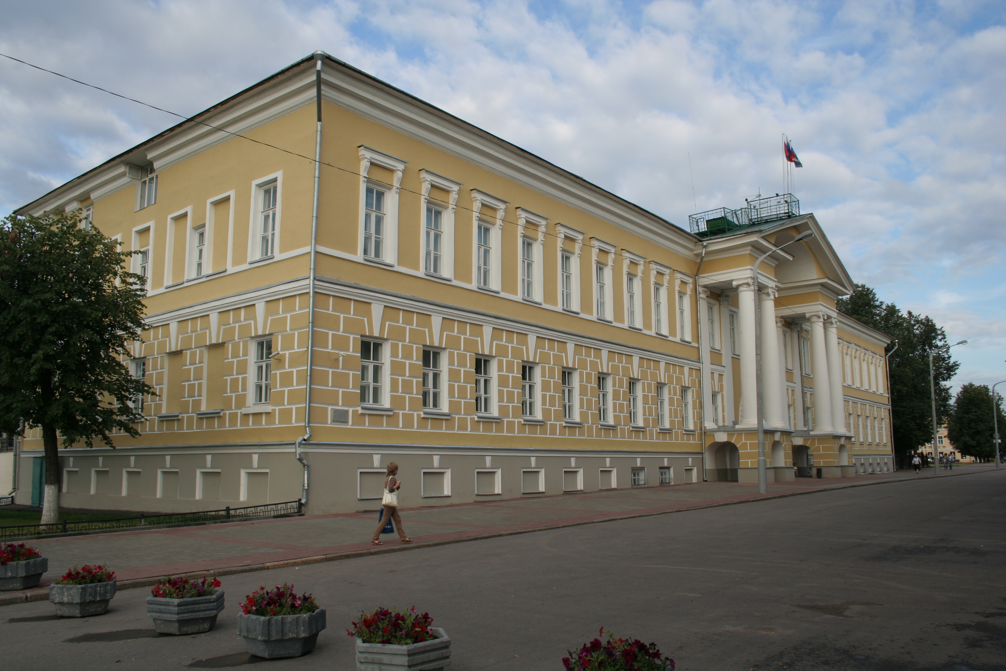 The building of the city administration in Kostroma, Russia.